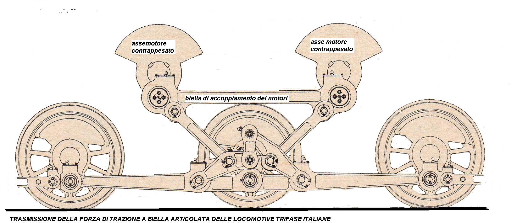 Design of the power transmission of italian electric triphase locomotives FS E.554